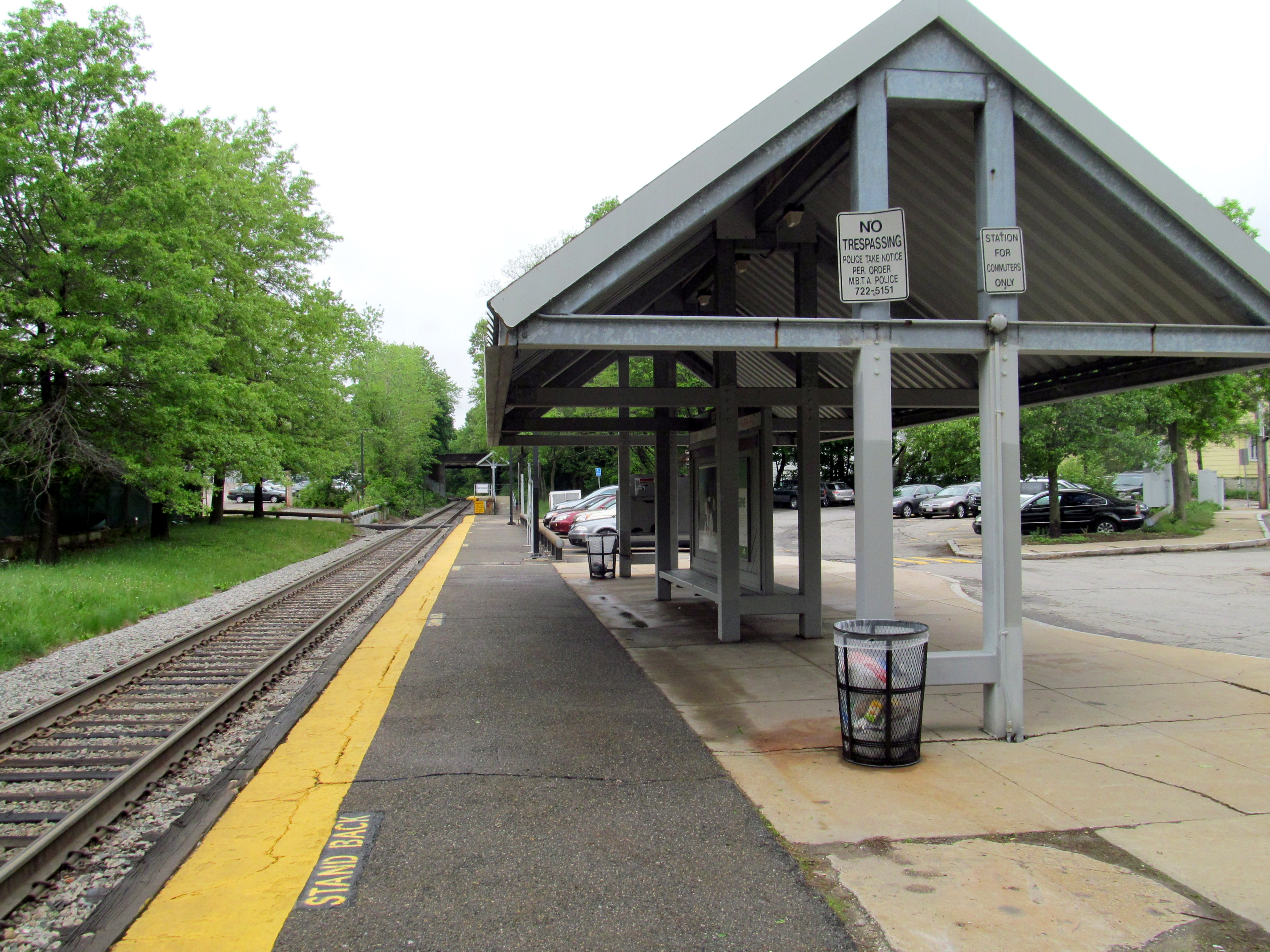 Shelter at Bellevue station in May 2012